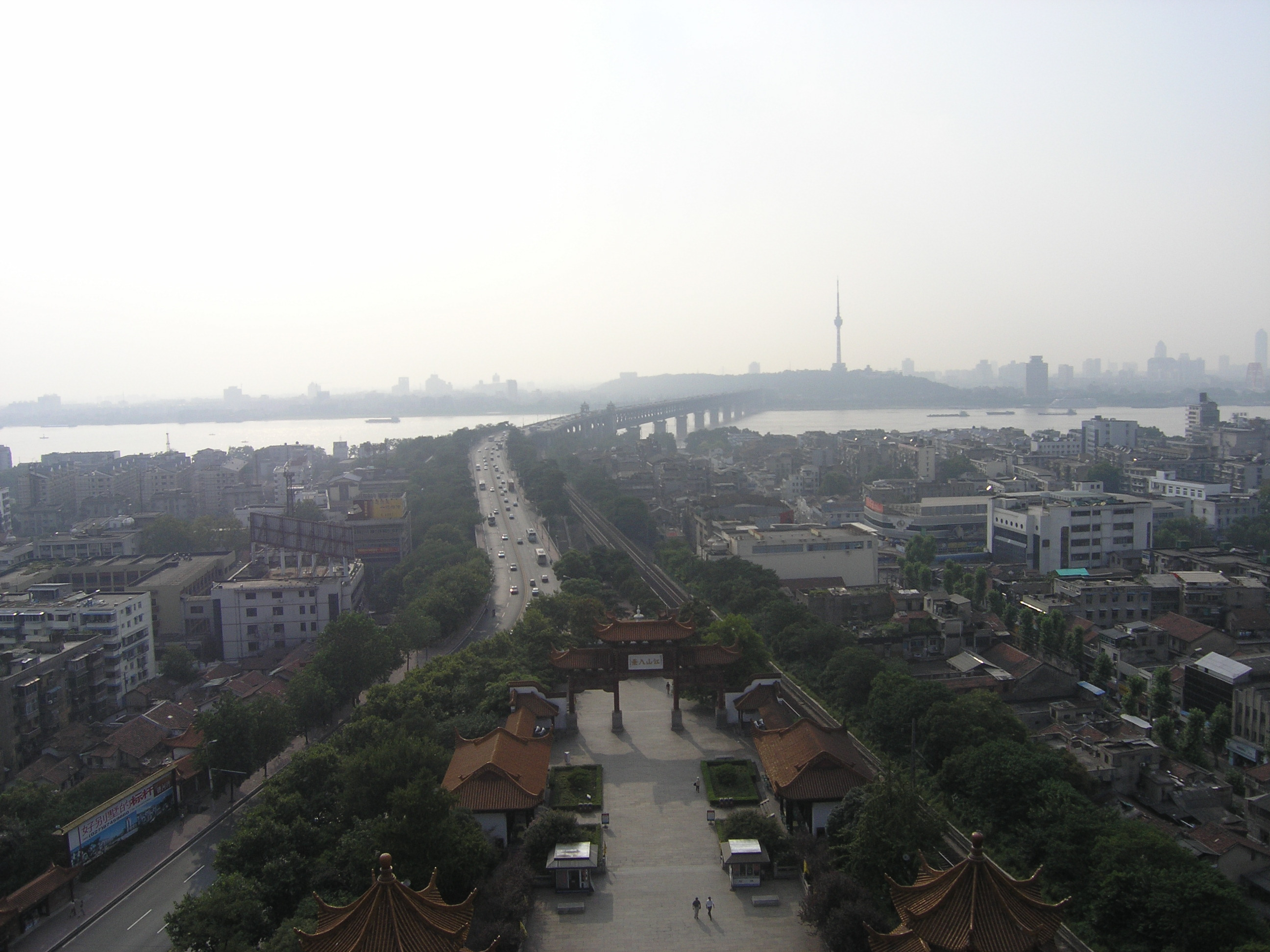 Description: View from Yellow Crane Tower, Wuhan, China Source: Photograph by myself Date: August 2004 Photographer: m1la